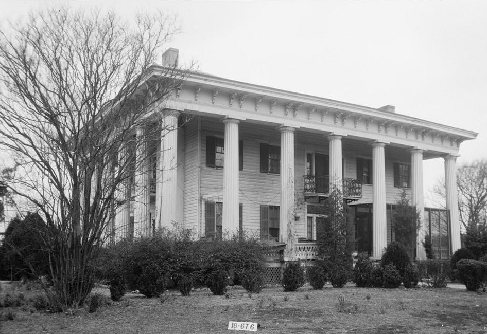 Dicksonia: Turner-Dickson House, State Highway 97 (County Road 29), Lowndesboro vicinity, Lowndes, AL . FRONT VIEW. Image courtesy of Historic American Buildings Survey—HABS.